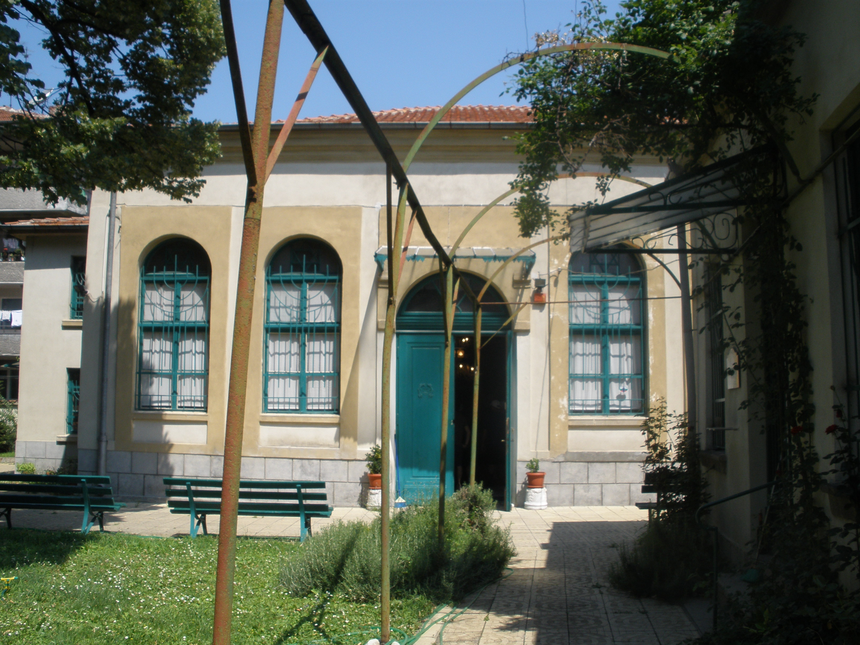 The Synagogue in Plovdiv. Credit: Courtesy of Yossi Nevo .